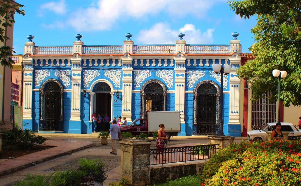 Rovirosa Family House in Camaguey